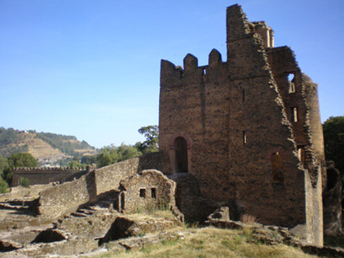 Palace in Gondar, Ethiopia